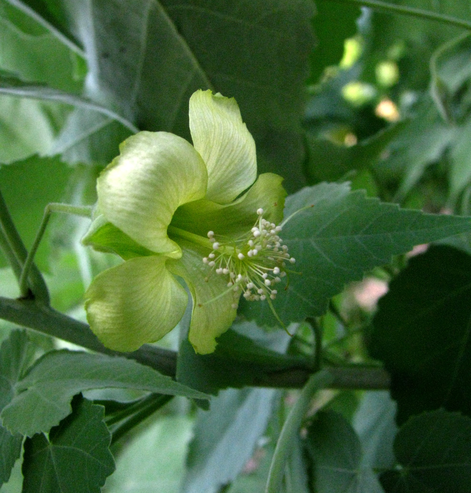 Koʻoloa ʻula Malvaceae Endemic to the Hawaiian Islands Endangered Oʻahu (Cultivated) A rare blond or butter colored form.